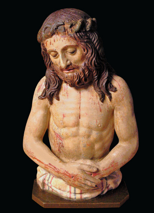 Pietro Bussolo "Imago Pietatis" Wood, around 1501, 60 x 33 x 18 cm Museo delle Orsoline, Gandino (Italy)